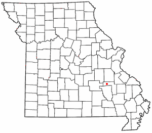 Modified from Image:MOMap-doton-Springfield.png